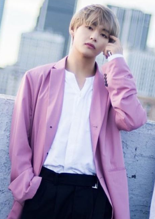 V in a photo shoot for Dispatch in November 2017, in Los Angeles, California, USA